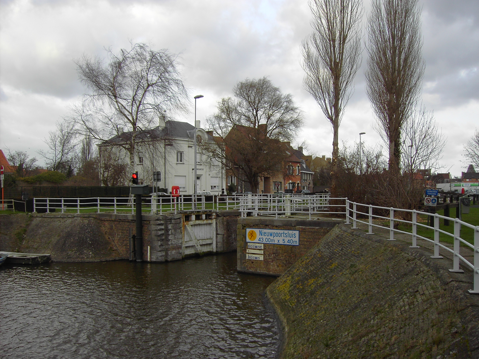 Lock entrance at Dunkirk side